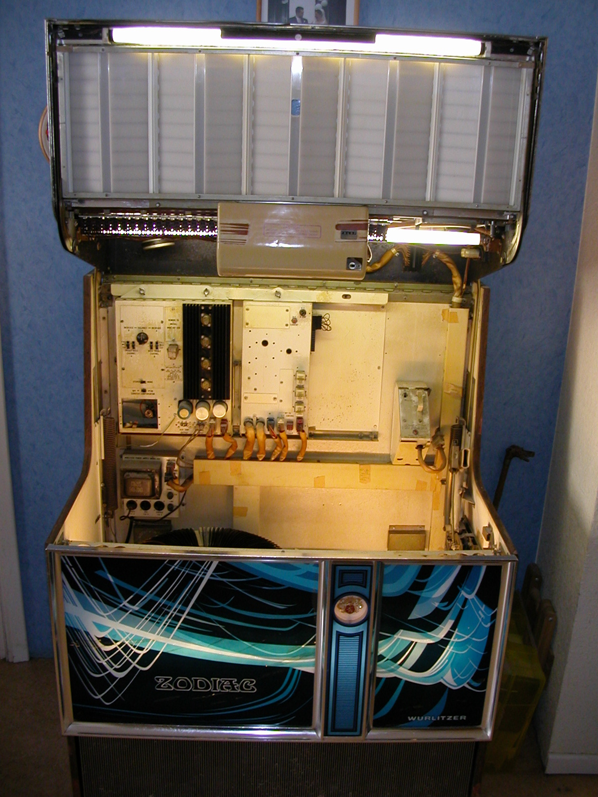 Wurlitzer 3500 "Zodiac" Juke-box from 1971. Lid open and turned on. On the top of the cabinet, from left to right you can clearly see the amplifier section, the relay and fuse box, the coin system relay box, the coin release mechanism and finally the coin feed tube. Below the amplifier section and above the disc carousel you can see the power supply. On the lid you can see the two fluorescent tubes lightning the panel, the record counter and the record selection switches. In the middle of the panel there is a peephole, through this peephole you can see the actual selection playing.